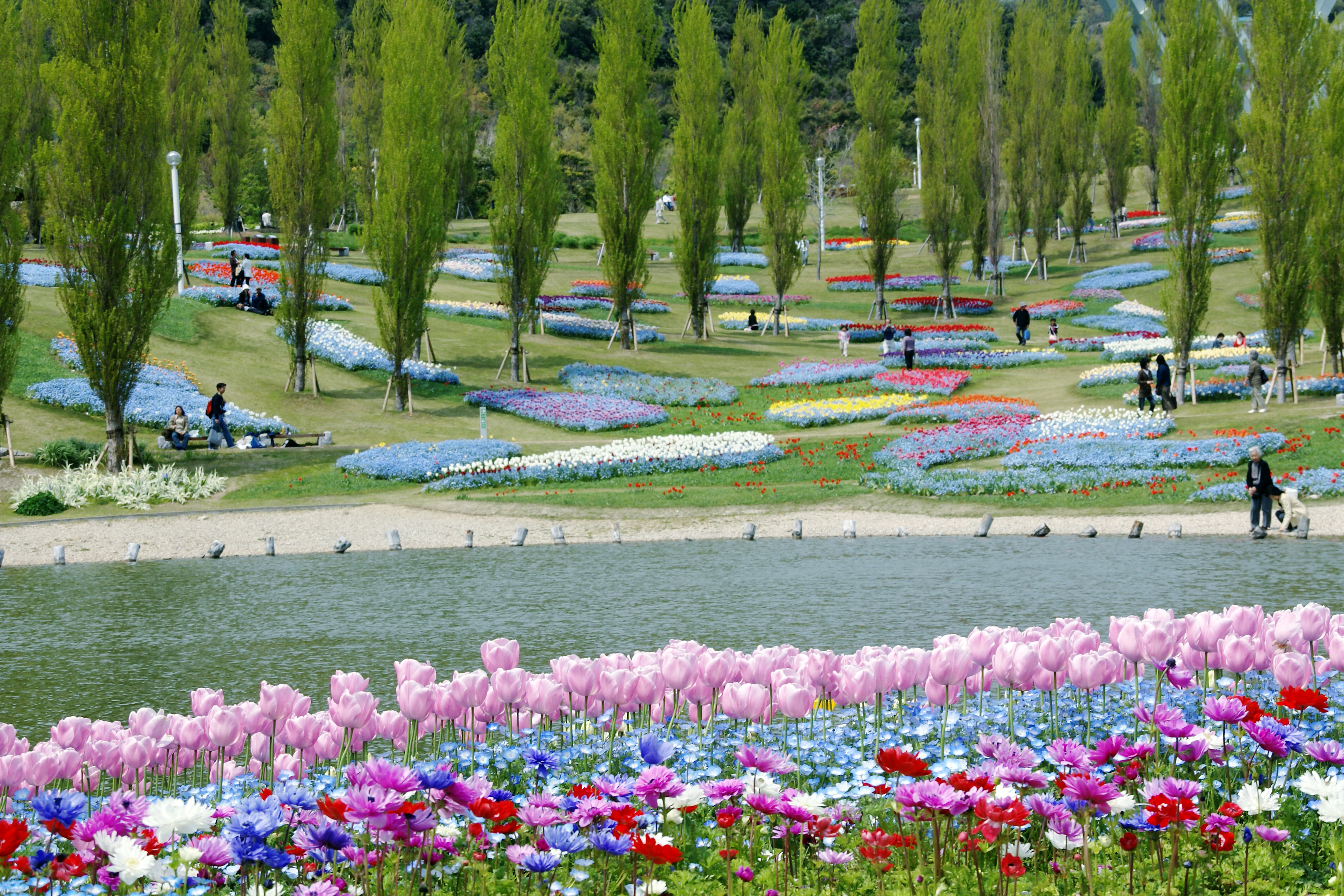 Akashi Kaikyo National Government Park in Awaji, Hyogo prefecture, Japan